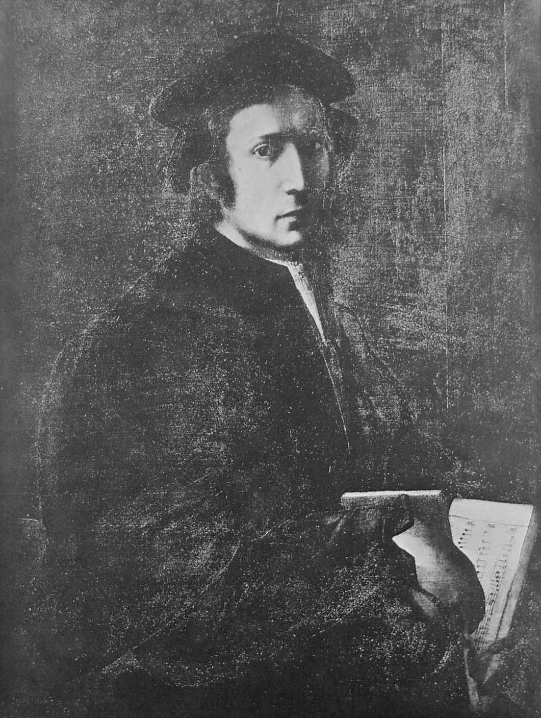 Reproduction of painting by Jacopo da Pontormo (Florence, ca. 1530); from Alfred Einstein, The Italian Madrigal (1949); PD-art